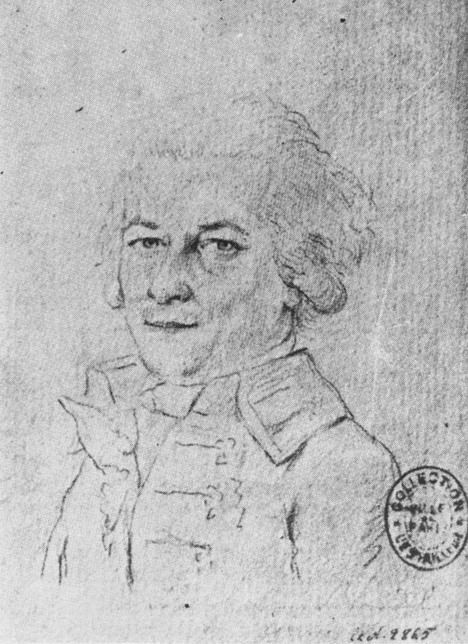 Portrait of the French architect Jacques-François Blondel by an unknown artist (Musée Carnavalet, Paris)